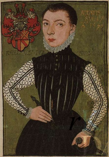 Jacob Van Bronkhorst and his COA by unknown artist